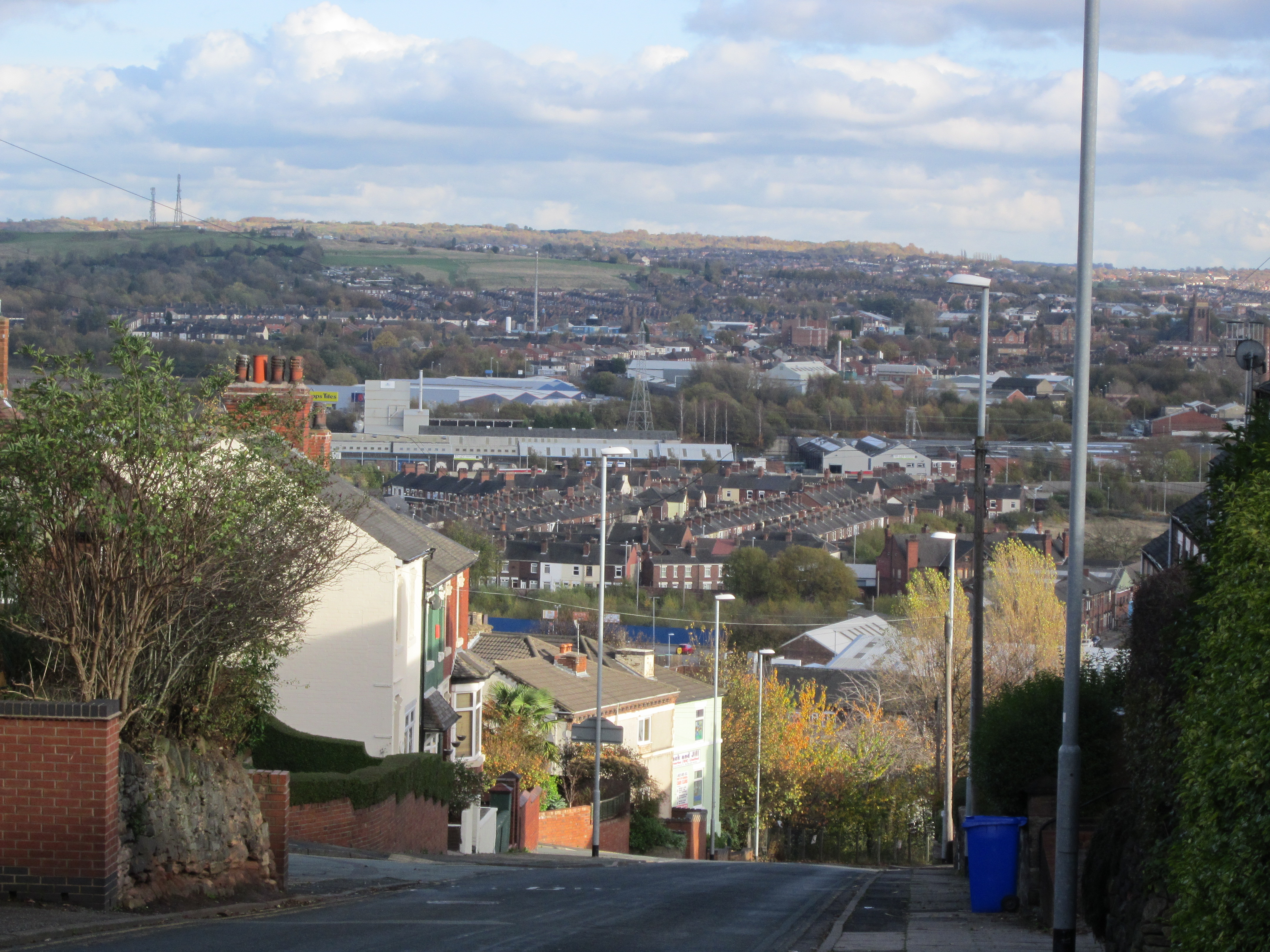 View from Penkhull New Road, Stoke-on-Trent, England. Looking from Penkhull towards Fenton and surrrounding areas.